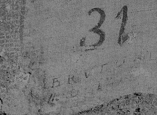 The Wine of Saint Martin’s Day by Pieter Bruegel the Elder, signature on the back.